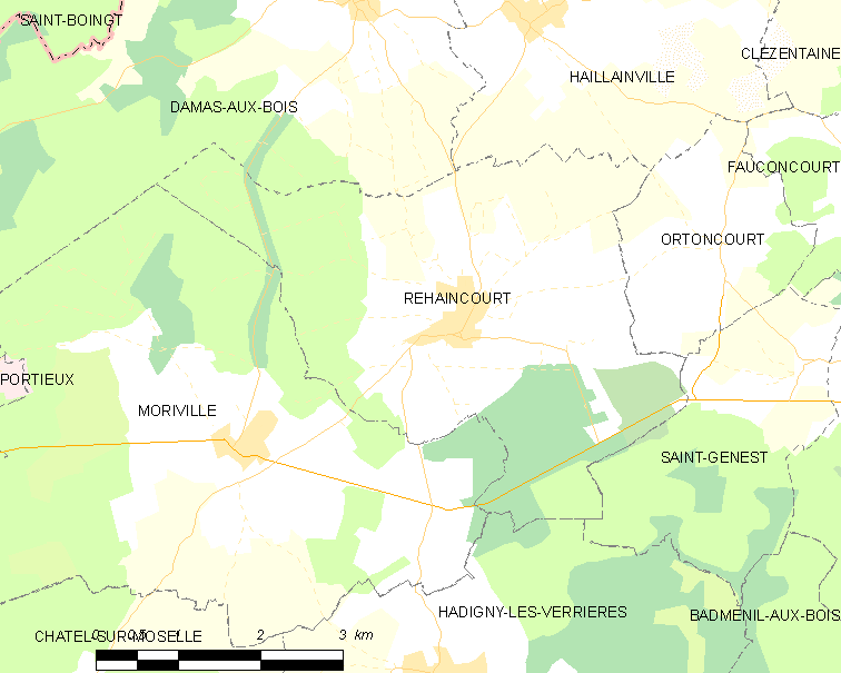 Map of French municipality Rehaincourt